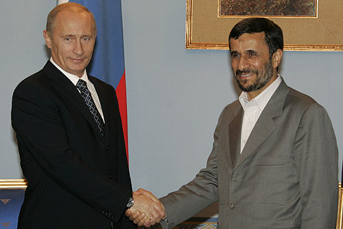 TEHRAN. With the President of Iran, Mahmoud Ahmadinejad.